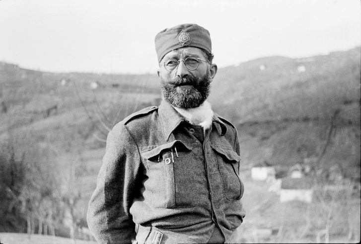 Dragoljub Mihailović was a Yugoslav Serb general during World War II.